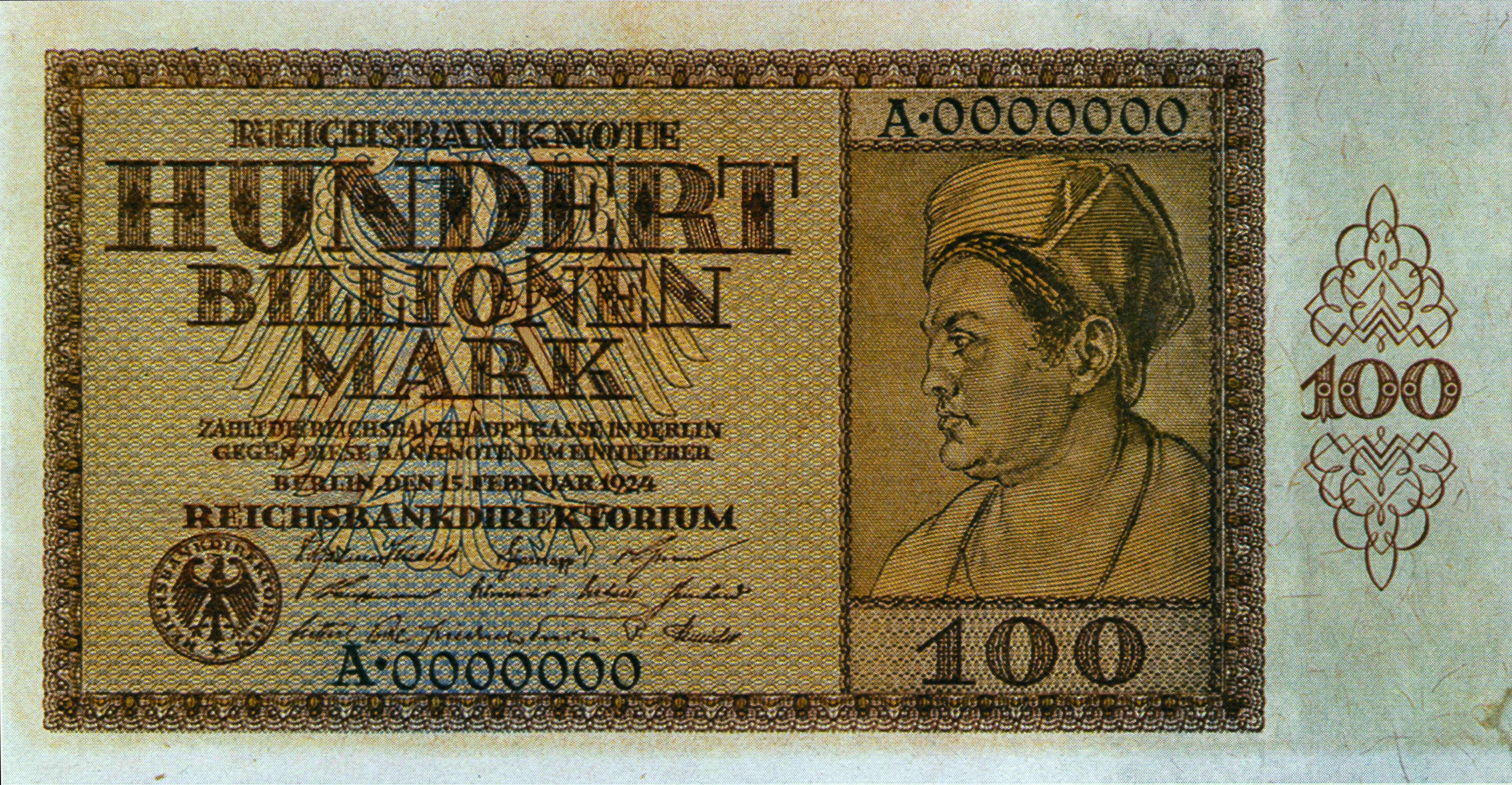 Old German 100 Trillion mark note, printed in 1924, issued February 15.